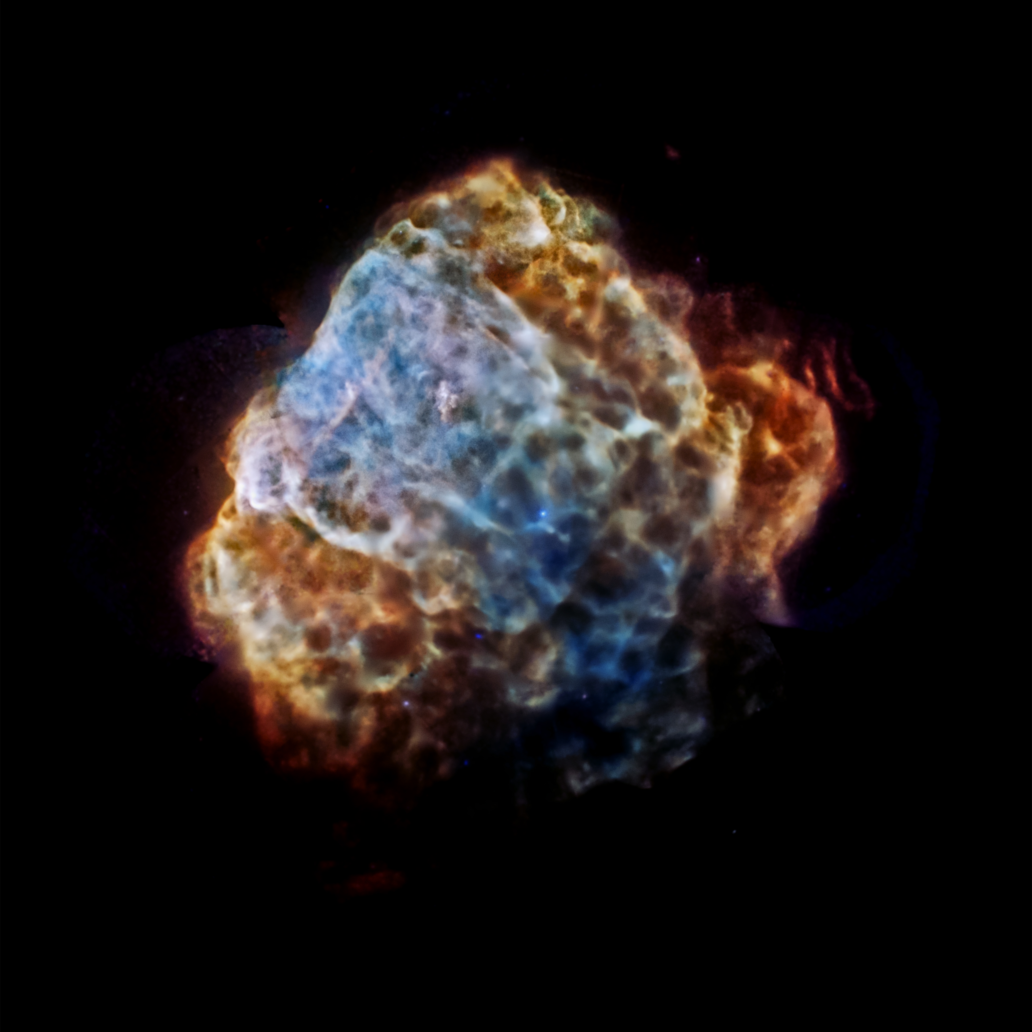 Unprecedented X-ray View of Supernova Remains — The destructive results of a powerful supernova explosion reveal themselves in a delicate tapestry of X-ray light, as seen in this image from NASA’s Chandra X-Ray Observatory and the European Space Agency's XMM-Newton. The image shows the remains of a supernova that would have been witnessed on Earth about 3,700 years ago. The remnant is called Puppis A, and is around 7,000 light years away and about 10 light years across. This image provides the most complete and detailed X-ray view of Puppis A ever obtained, made by combining a mosaic of different Chandra and XMM-Newton observations. Low-energy X-rays are shown in red, medium-energy X-rays are in green and high energy X-rays are colored blue. These observations act as a probe of the gas surrounding Puppis A, known as the interstellar medium. The complex appearance of the remnant shows that Puppis A is expanding into an interstellar medium that probably has a knotty structure. Supernova explosions forge the heavy elements that can provide the raw material from which future generations of stars and planets will form. Studying how supernova remnants expand into the galaxy and interact with other material provides critical clues into our own origins. A paper describing these results was published in the July 2013 issue of Astronomy and Astrophysics and is available online. The first author is Gloria Dubner from the Instituto de Astronomía y Física del Espacio in Buenos Aires in Argentina.